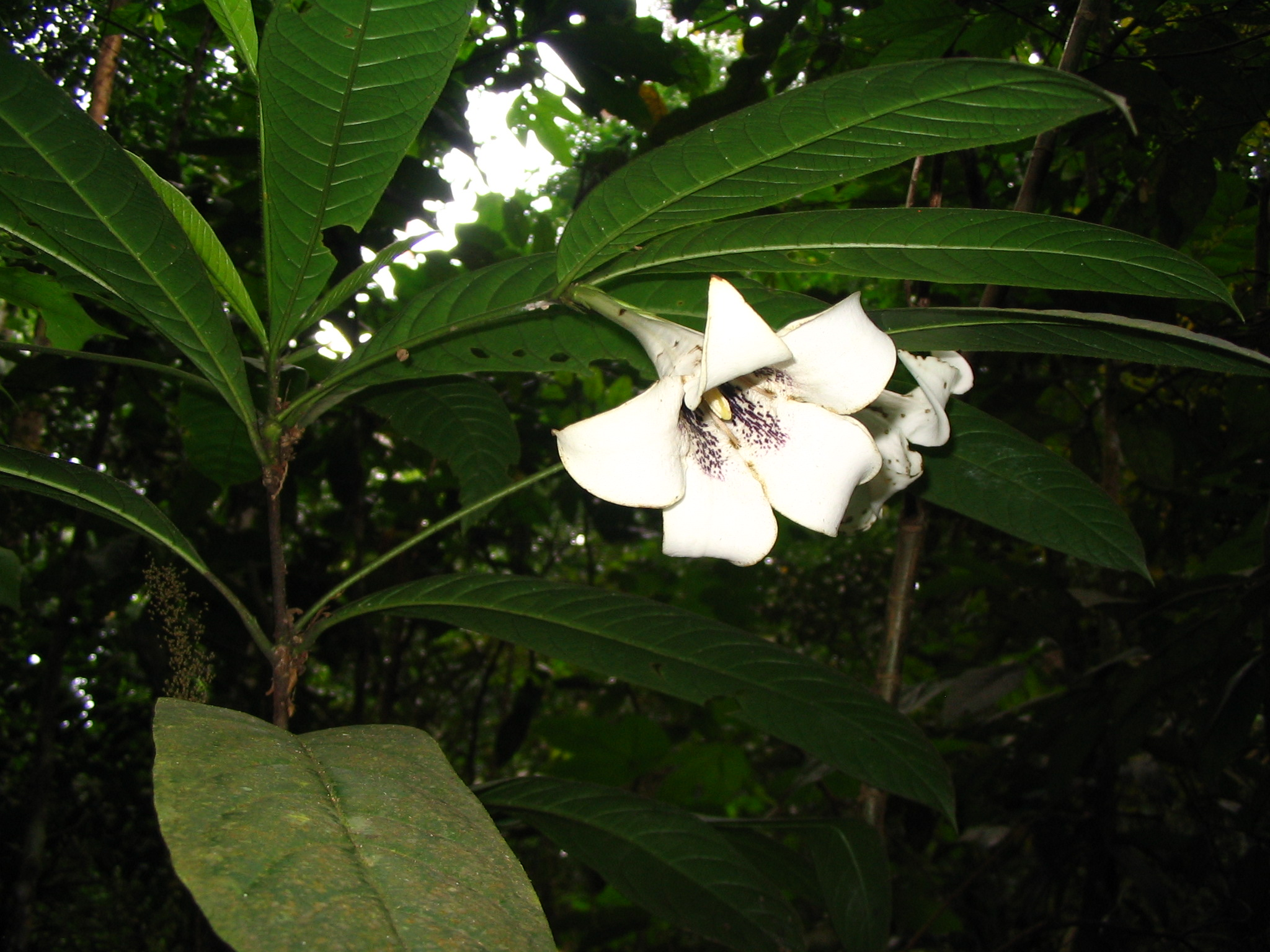 Rothmannia macrophylla - Forest Research Institute Malaysia (FRIM) - Kepong - Selangor - Malaisie